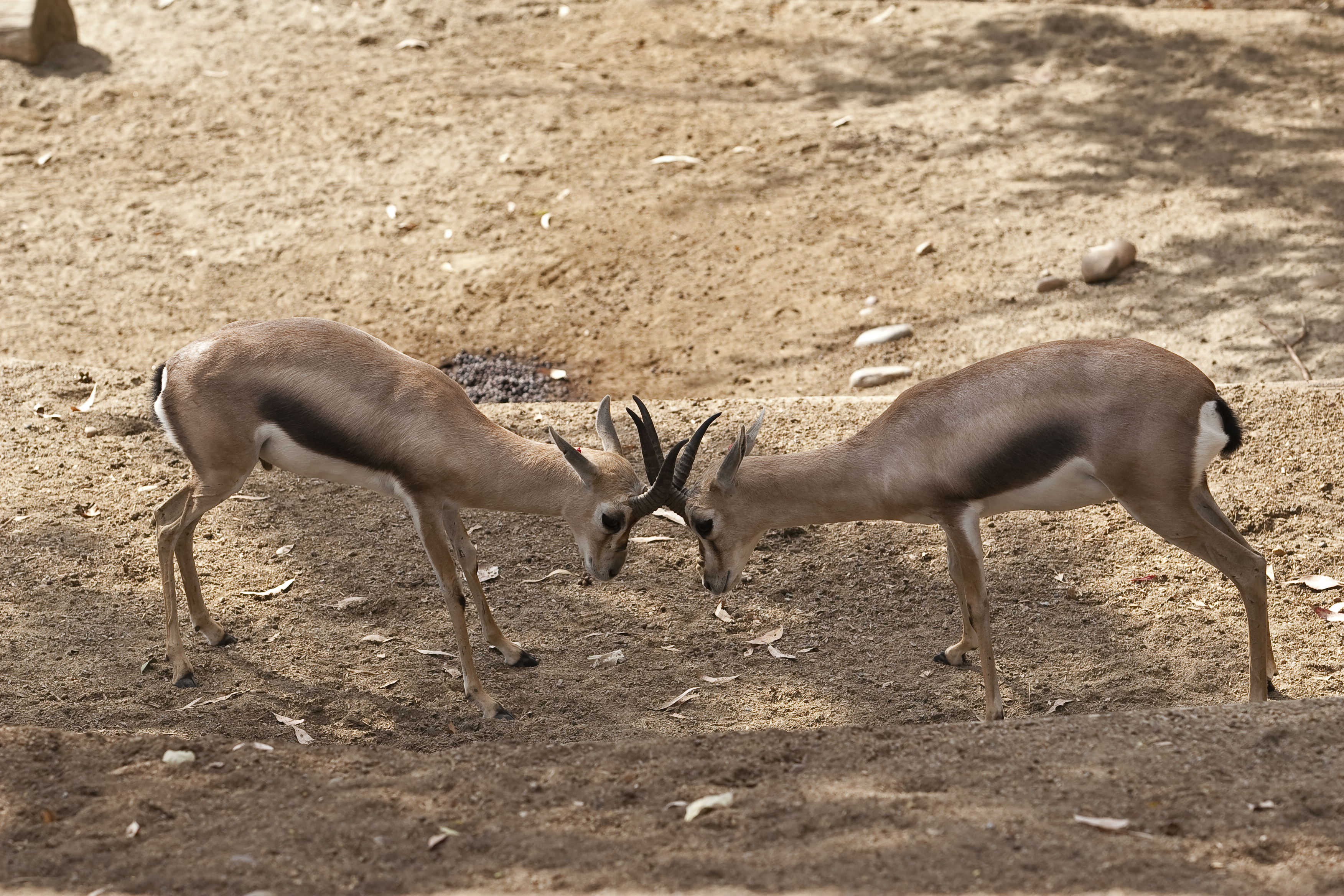 Speke's Gazelle (Gazella spekei) at San Diego Zoo, California, USA.